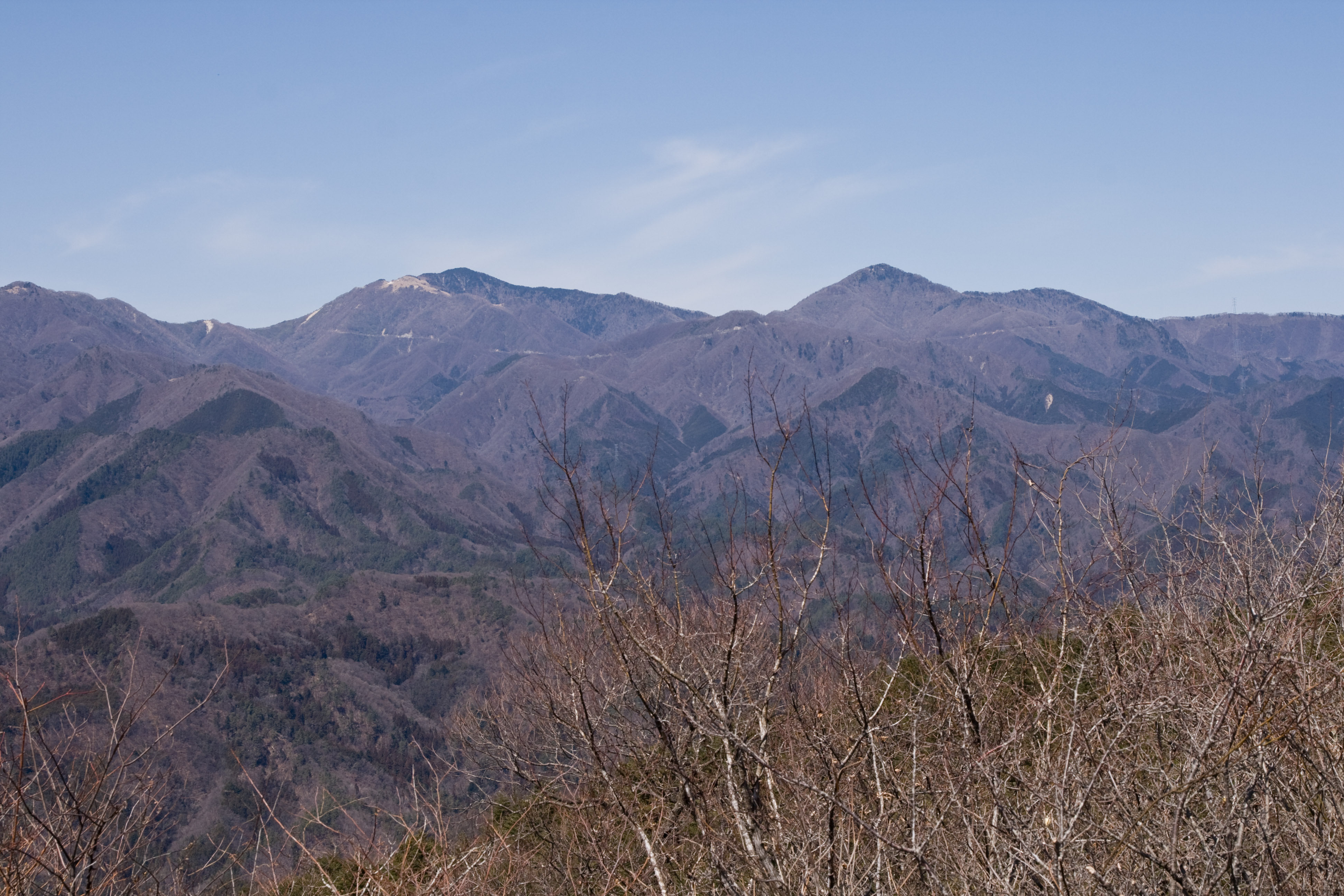 Mt.Kurodake and Mt.Gangaharasuri as seen from Mt.Takagawa, Yamanashi Pref., Japan.